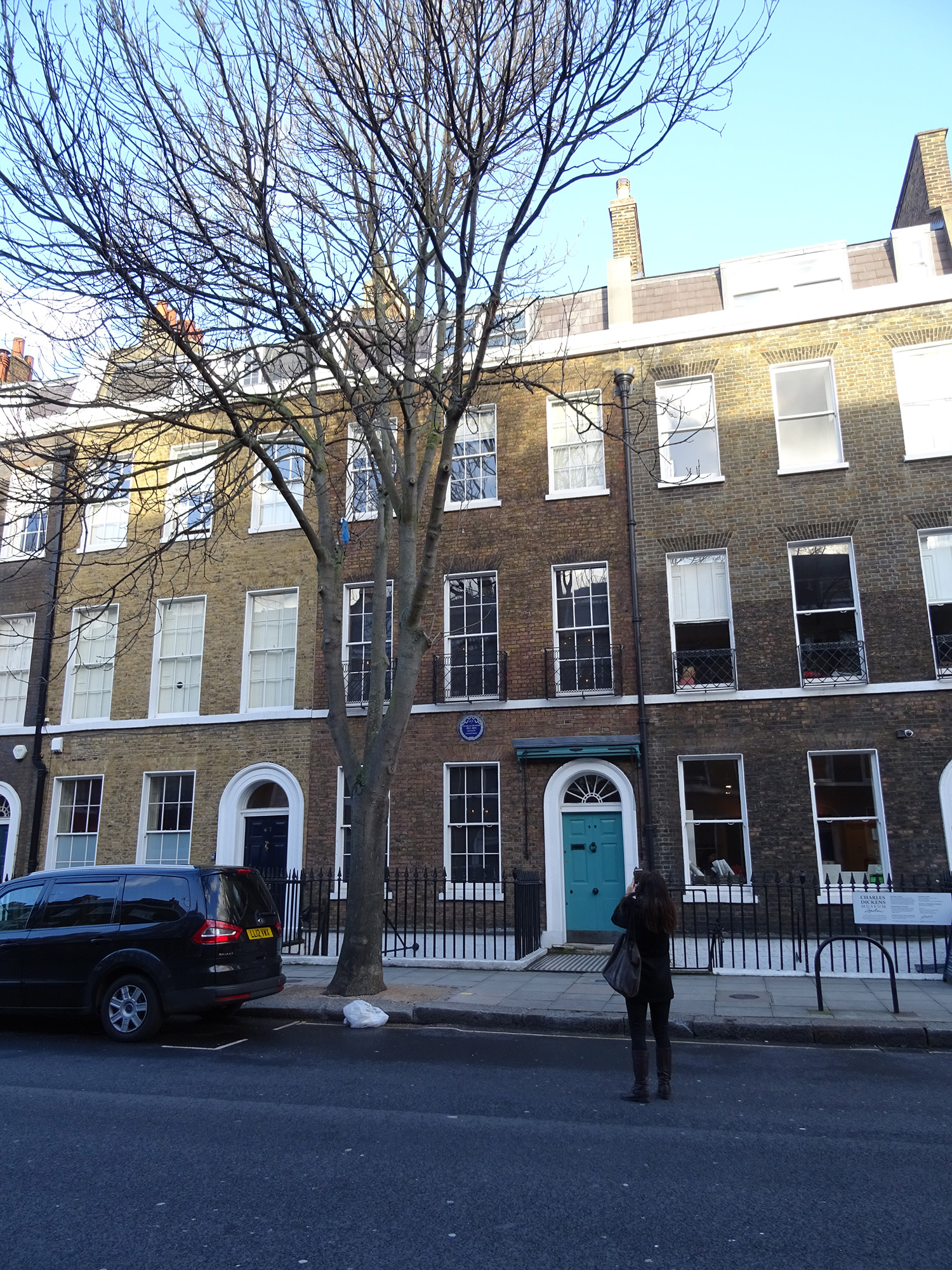 "Charles Dickens 1812-1870 novelist lived here" - 48 Doughty Street, Holborn, London, WC1N 2LX